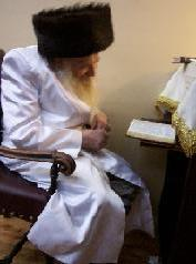 The Zidichover Rebbe praying